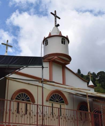 El Llano Yarumal